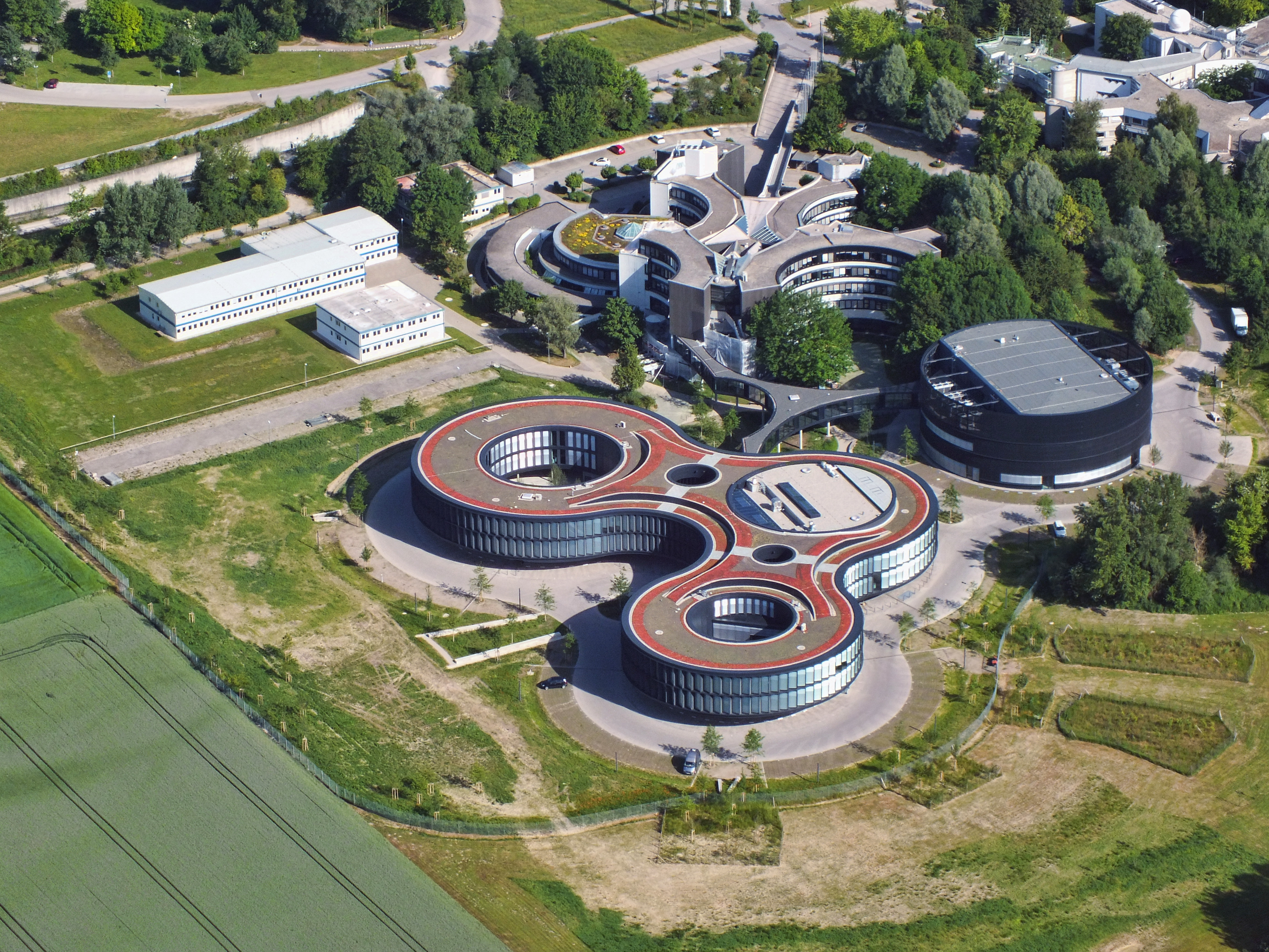 This aerial photograph shows the sprawling site of the European Southern Observatory’s (ESO) Headquarters in Garching bei München, Germany. While ESO operates telescopes scattered across Chile in the southern hemisphere, Garching houses the scientific, technical and administrative centre of ESO, where development programmes are carried out to provide the observatories with the most advanced instruments. The buildings in the centre of the frame, both with sleek, curved designs, are the two main ESO Headquarters buildings — the top-right building was the organisation’s sole base for many years before it was recently joined by the lower red-roofed extension, which was inaugurated in December 2013. The black, rounded building is the technical building, where work on new instruments is carried out. Each of the individual Headquarters buildings are connected by curved bridges, seen here as the three-armed black shape in the centre of the frame. The new extension, designed by architects Auer+Weber, now helps to house ESO’s growing numbers of staff and to facilitate world-class astronomical research in the design and construction phase of the European Extremely Large Telescope (E-ELT), the world’s biggest eye on the sky. Previously, some members of staff were spread across the Garching campus and housed in buildings similar to the white blocks seen to the left of this image. This aerial image was taken on 9 June 2014 by aerial photographer Ernst Graf (graf-flugplatz.de).